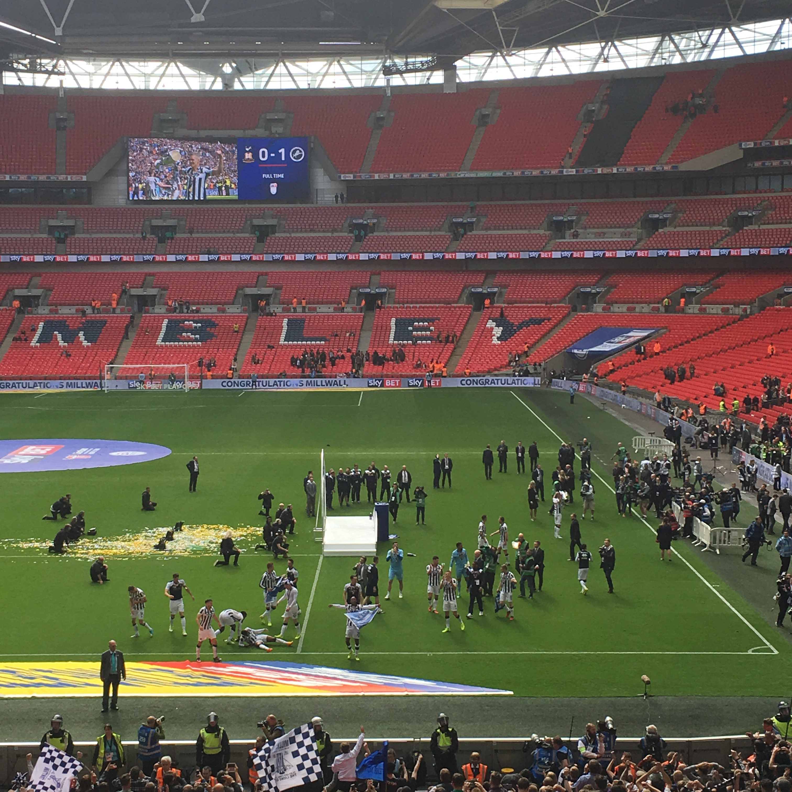 Millwall celebrate beating Bradford City at Wembley in the League One Playoff Final